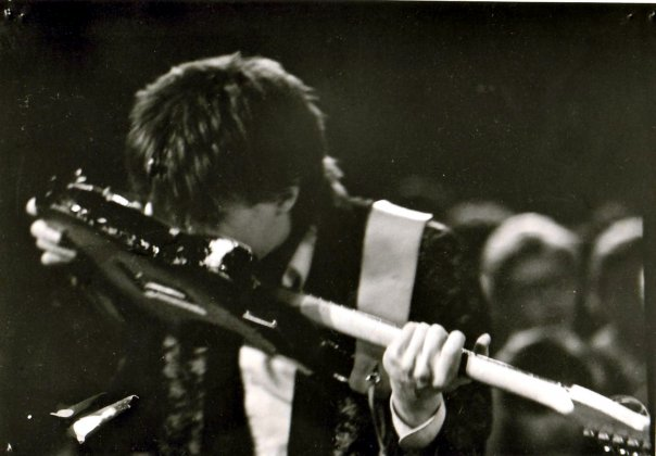 Swedish guitarplayer Peter Puders i action